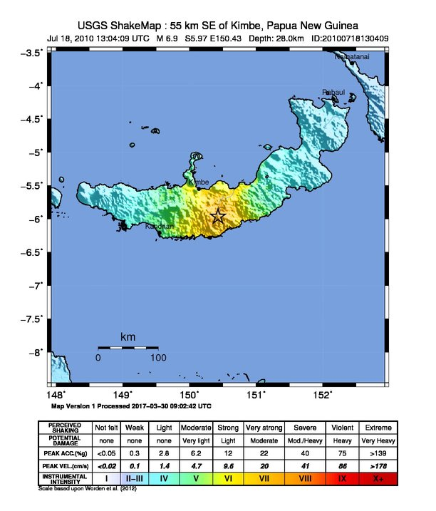 M 6.9 - New Britain region, Papua New Guinea 2010-07-18 13:04:09 (UTC)